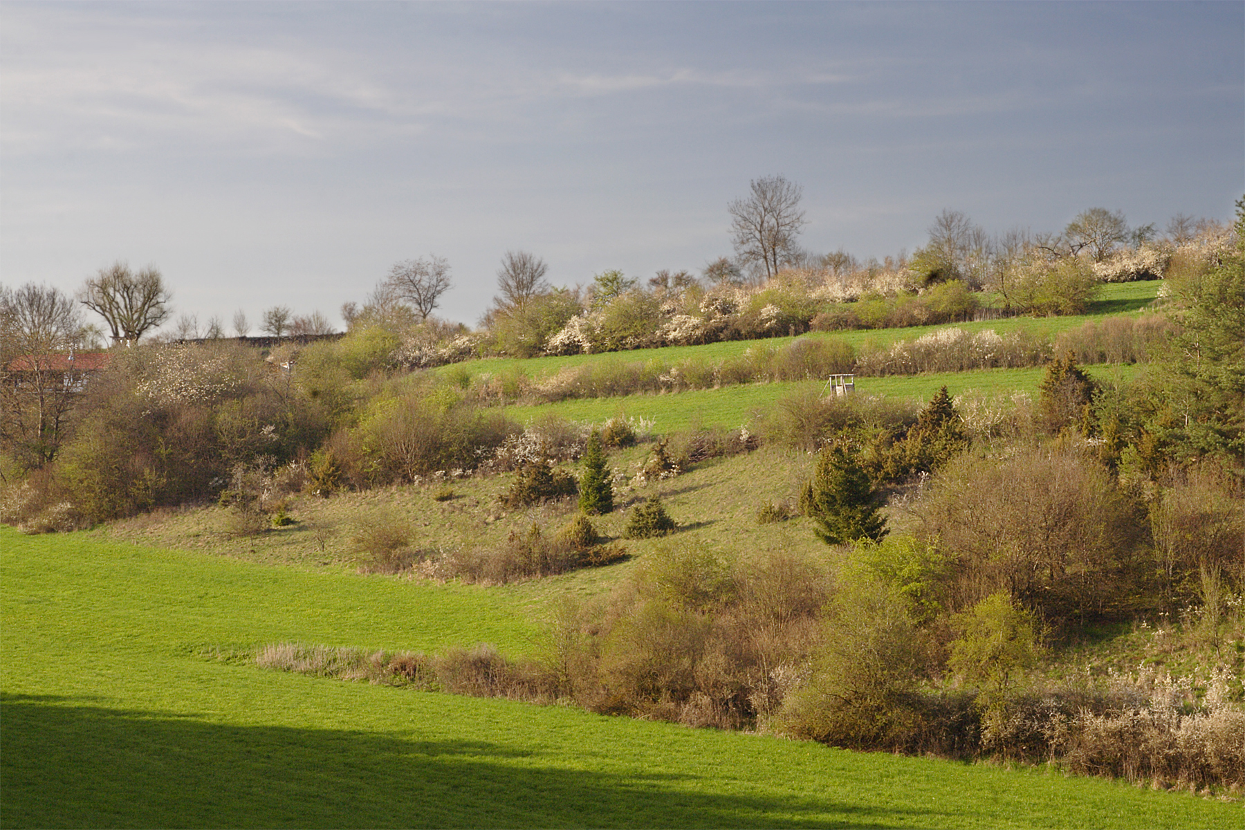 Slope of the Weskental, east of the village Eglingen (belongs to Hohenstein), Swabian Alb. The valley descends down into the valley oft he “Große Lauter“, south of Buttenhausen. The rows of horizontal hedges, probably developed on stringed stones, and well attended over centuries, were natural borders of fields.